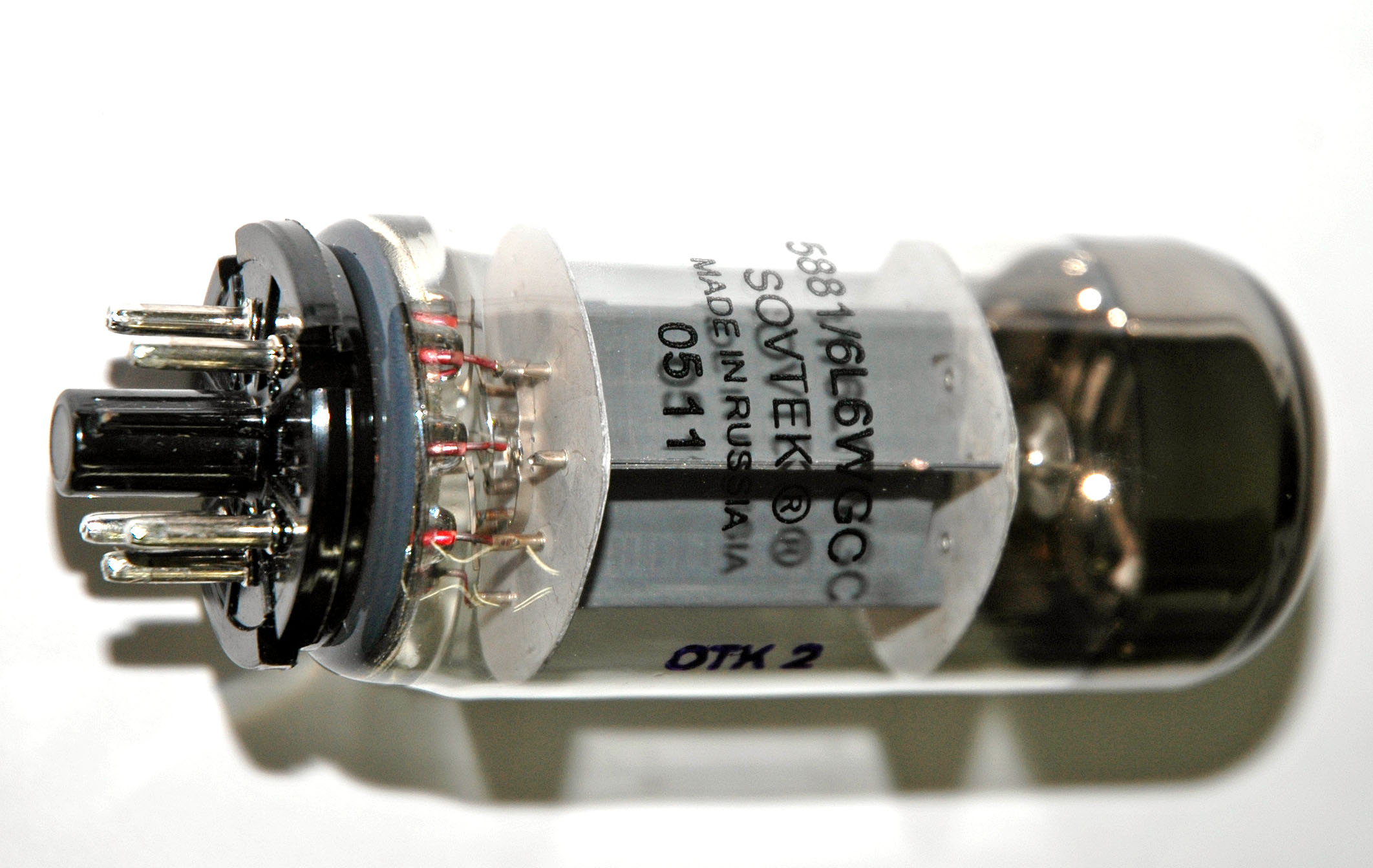 A Sovtek 5881 vacuum tube.